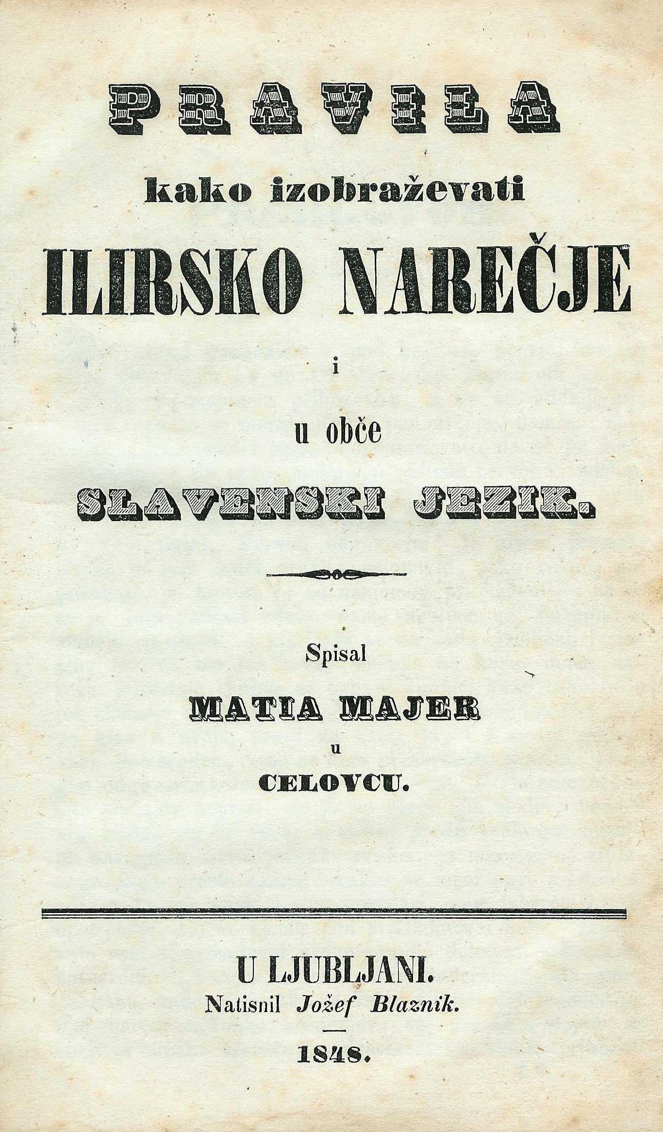 Rules of the development of the Illyric language, frontpage